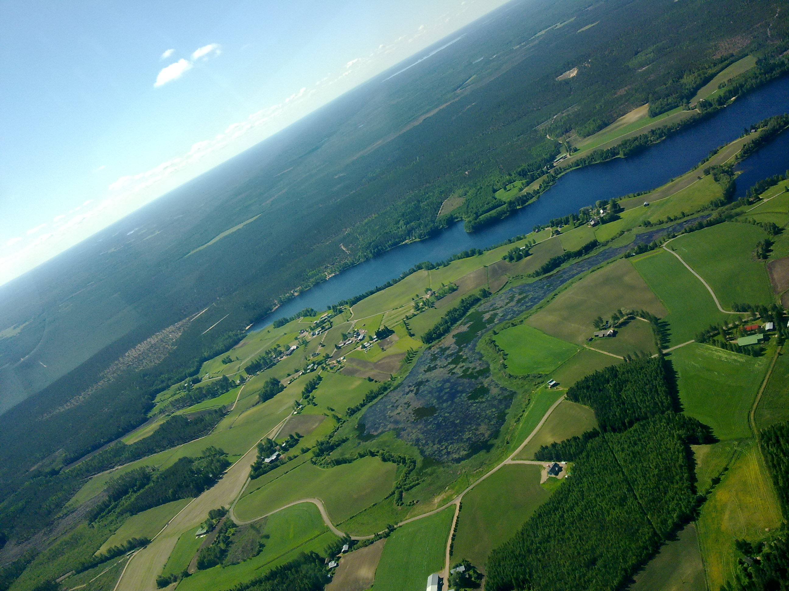 Lake Jämijärvi in Jämijärvi, Finland from air